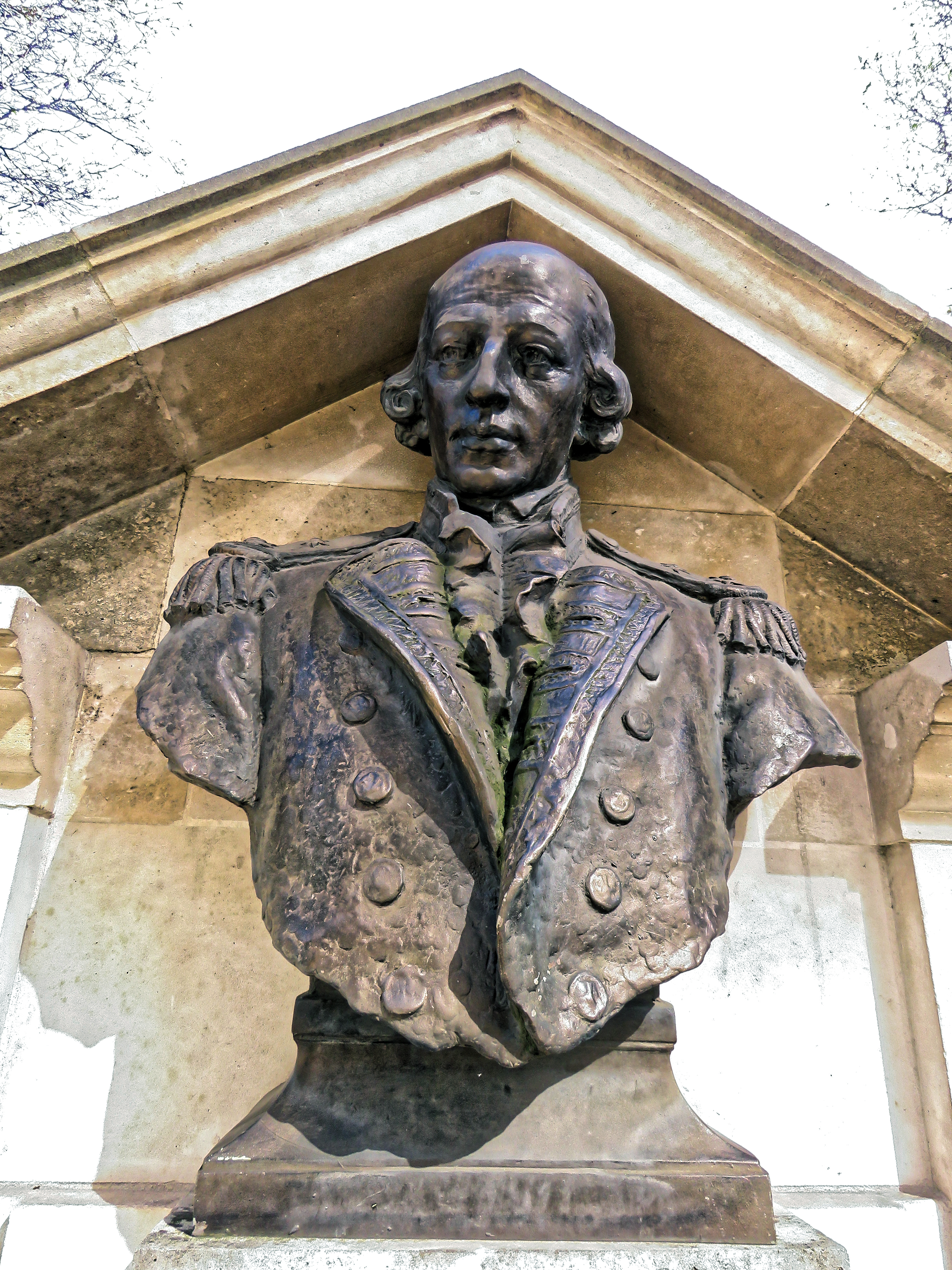 Largely late 20th-century monument, with modern resin replica bust based on an original by Charles Leonard Hartwell, of Admiral Arthur Phillip (1738–1814), Royal Navy officer and first Governor of New South Wales, at the edge of a small garden to the south from One New Change and north from Cannon Street, in the City of London, England.Camera: Canon PowerShot SX60 HS.Software: file lens-corrected and optimized with DxO PhotoLab Elite and Viewpoint 3, and further optimized with Adobe Photoshop CS2.